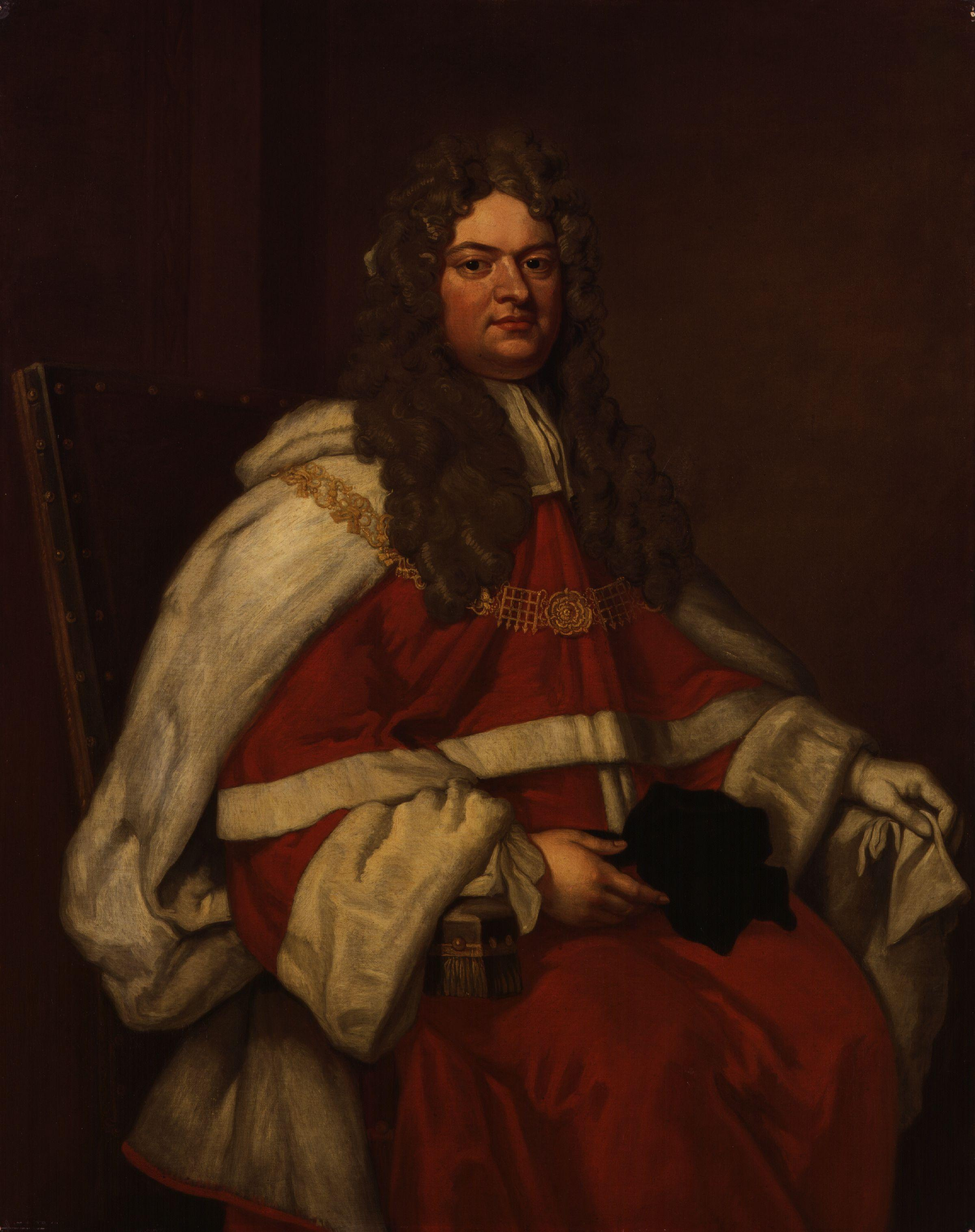 Thomas Parker, 1st Earl of Macclesfield, after Sir Godfrey Kneller, Bt (died 1723). All images in this batch have been confirmed as author died before 1939 according to the official death date listed by the NPG.